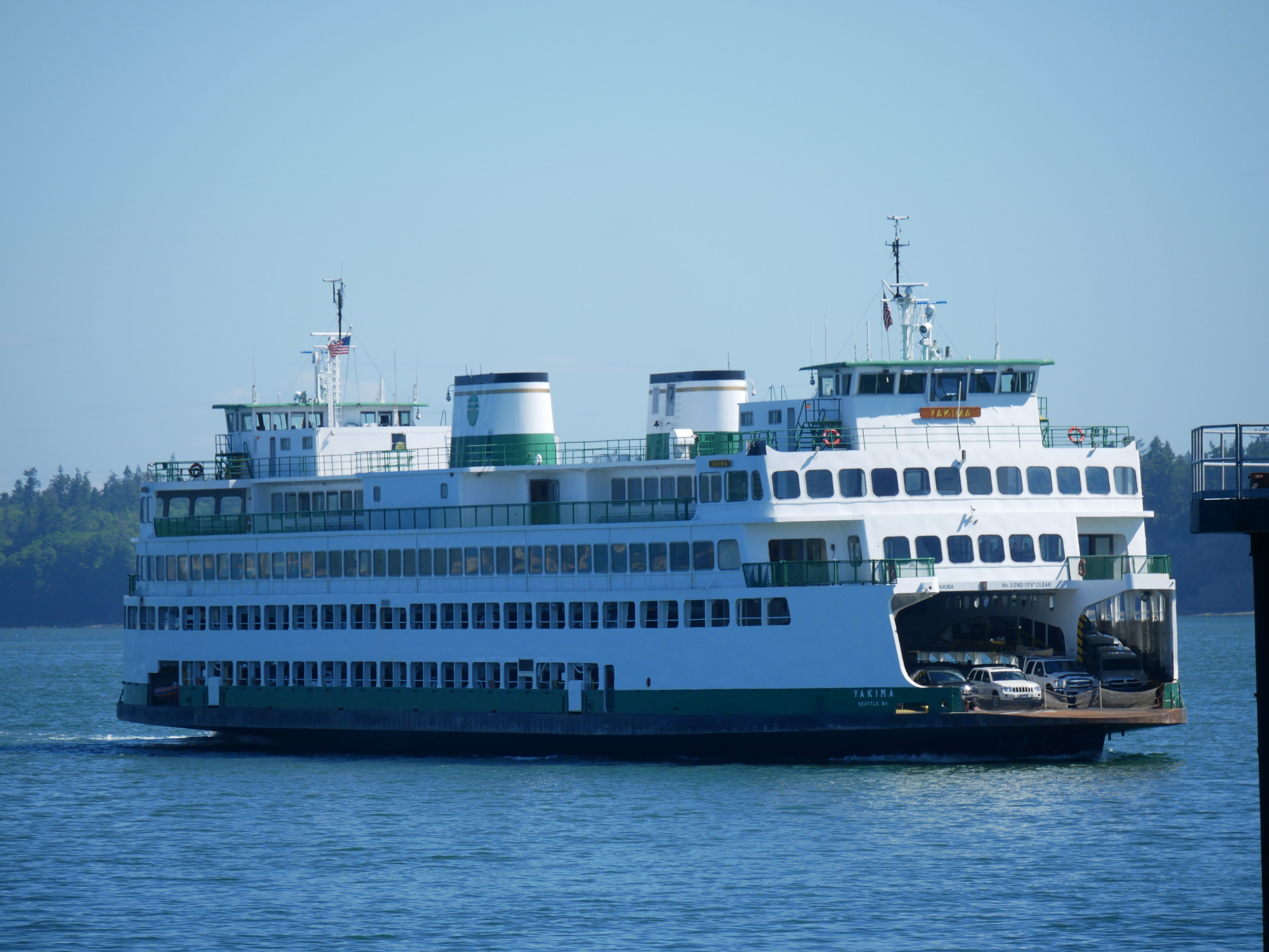 Yakima approaches the Anacortes Ferry Terminal